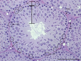 Junctional complexes are formed between the adjacent Sertoli cells (Sertoli-Sertoli barrier or blood-testis barrier) and this barrier separate the space within the seminiferous tubule into basal and luminal compartments. A layer of peritubular myoid cells surround the tubules. The nuclei of Sertoli cells are circled and nuclei of spermatogonia are enclosed by a rectangle. Abbreviations: BC- basal compartment; LC- luminal compartment; IN- interstitium; BV- blood vessel; SC- Sertoli cell; SP- spermatogonia; PMC- peritubular myoid cell. Bar represents 100 μm.